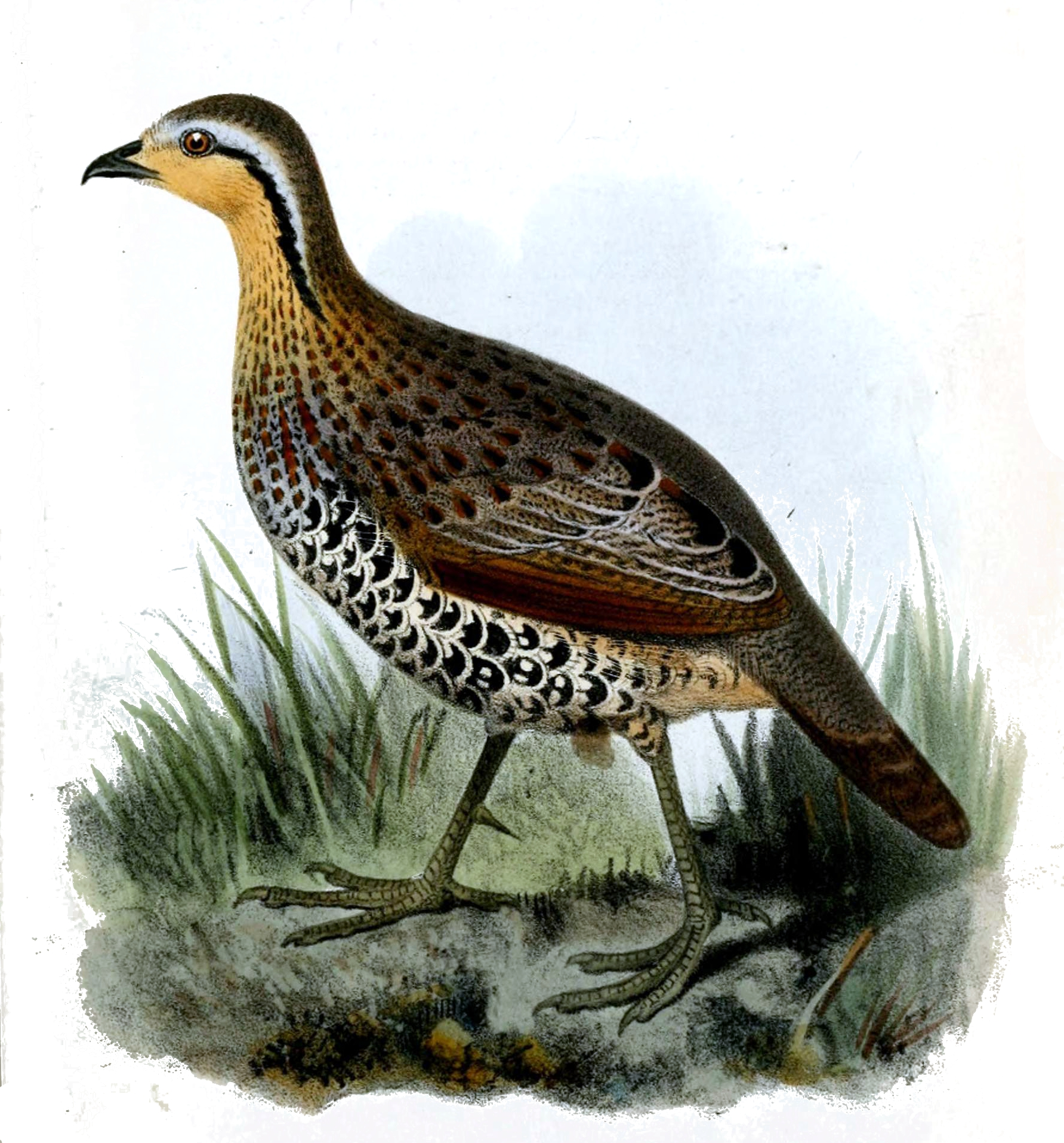 Bambusicola fytchii